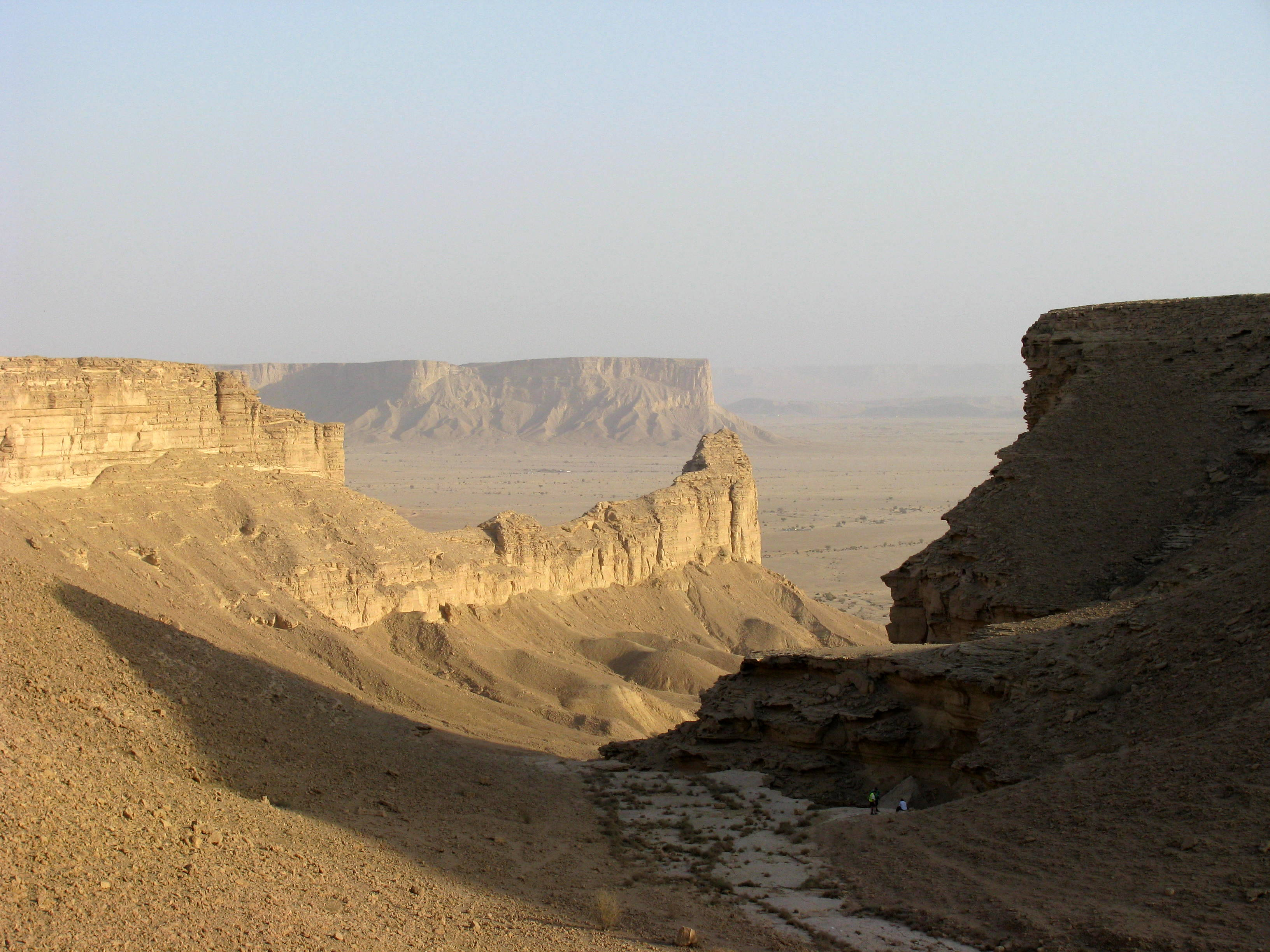 This is the view from near the top of the camel trail, before we had to head back down